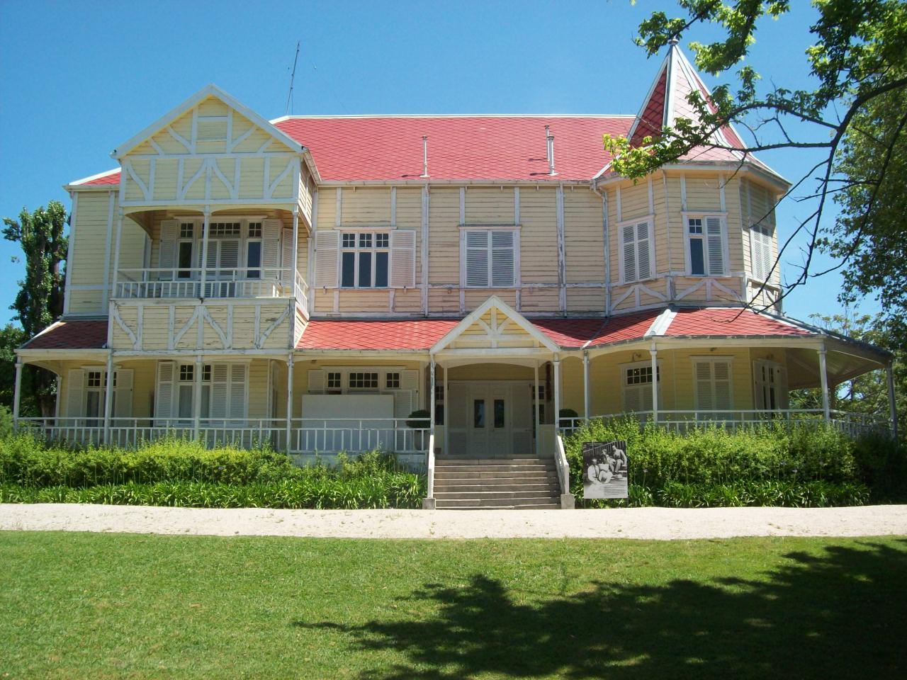 Front facade of Villa Victoria, the former home of the Argentine writer Victoria Ocampo, in Mar del Plata, Argentina.